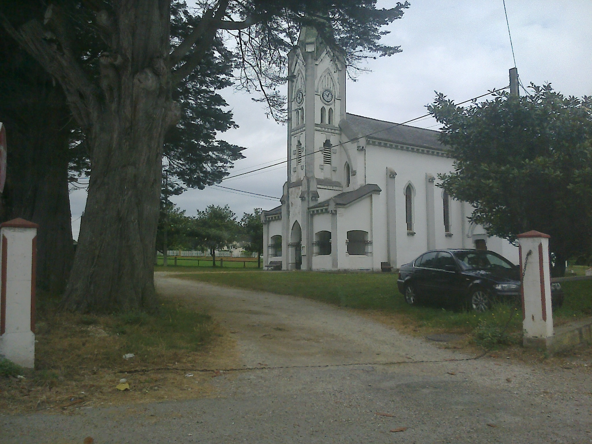 Church of Santiago, Valdés, Asturias